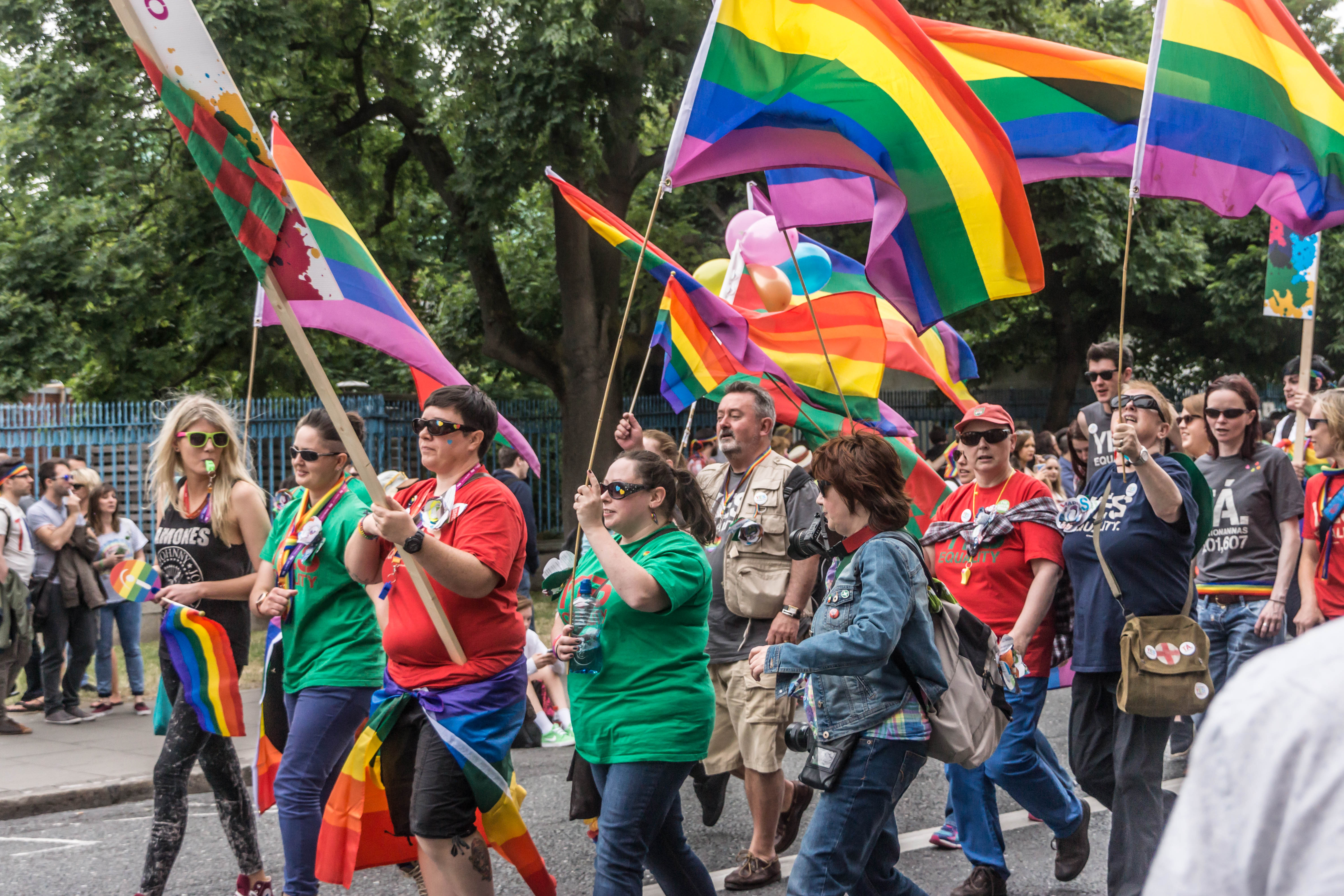 This is one of my favourite annual events. Recently featured in the Lonely Planet guide to the best gay pride celebrations in the world, the Dublin LGBTQ Pride Parade was expected to attract record crowds and it certainly did attract a lot pf interest from visitors and locals. The parade started from the Garden of Remembrance, Parnell Square, at 1.35pm, before heading down O’Connell St, crossing the Liffey and then ending up at the specially constructed Pride Village at Merrion Square.